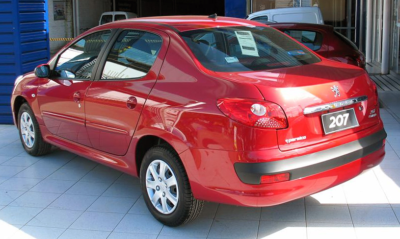 Peugeot 207 Compact One Line sedan (Chile), a facelifted 206 similar to the Peugeot 206+.